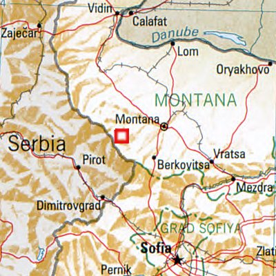 Bulgaria 1994 CIA map, city: part of the map Bulgaria_1994_CIA_map.jpg This image is in the public domain because it contains materials that originally came from the United States Central Intelligence Agency's World Factbook.